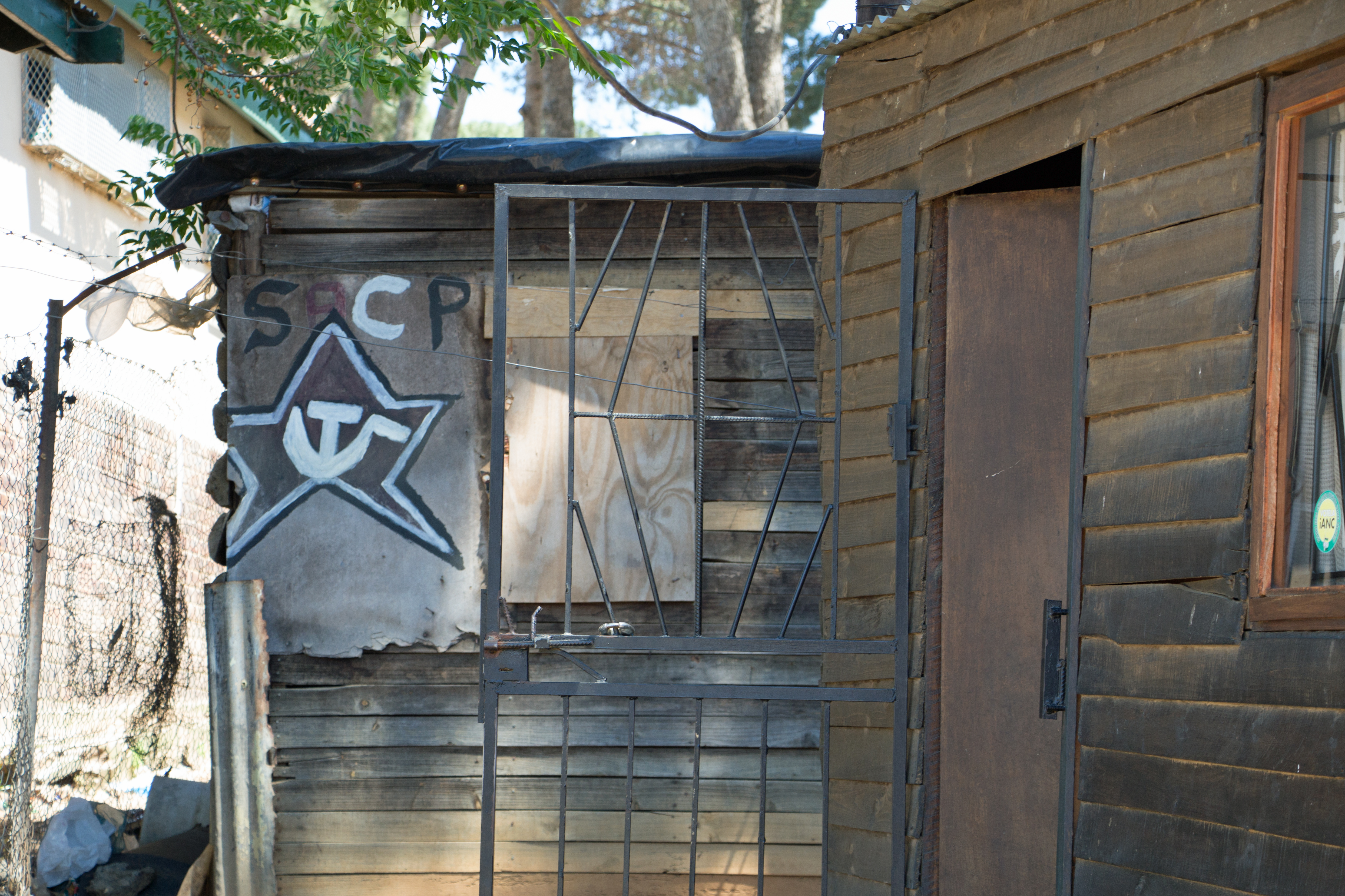 SACP graffiti in Kayamandi, Stellenbosch, South Africa. The round sticker in the window on the right reads "Votela iANC (Vote ANC)".